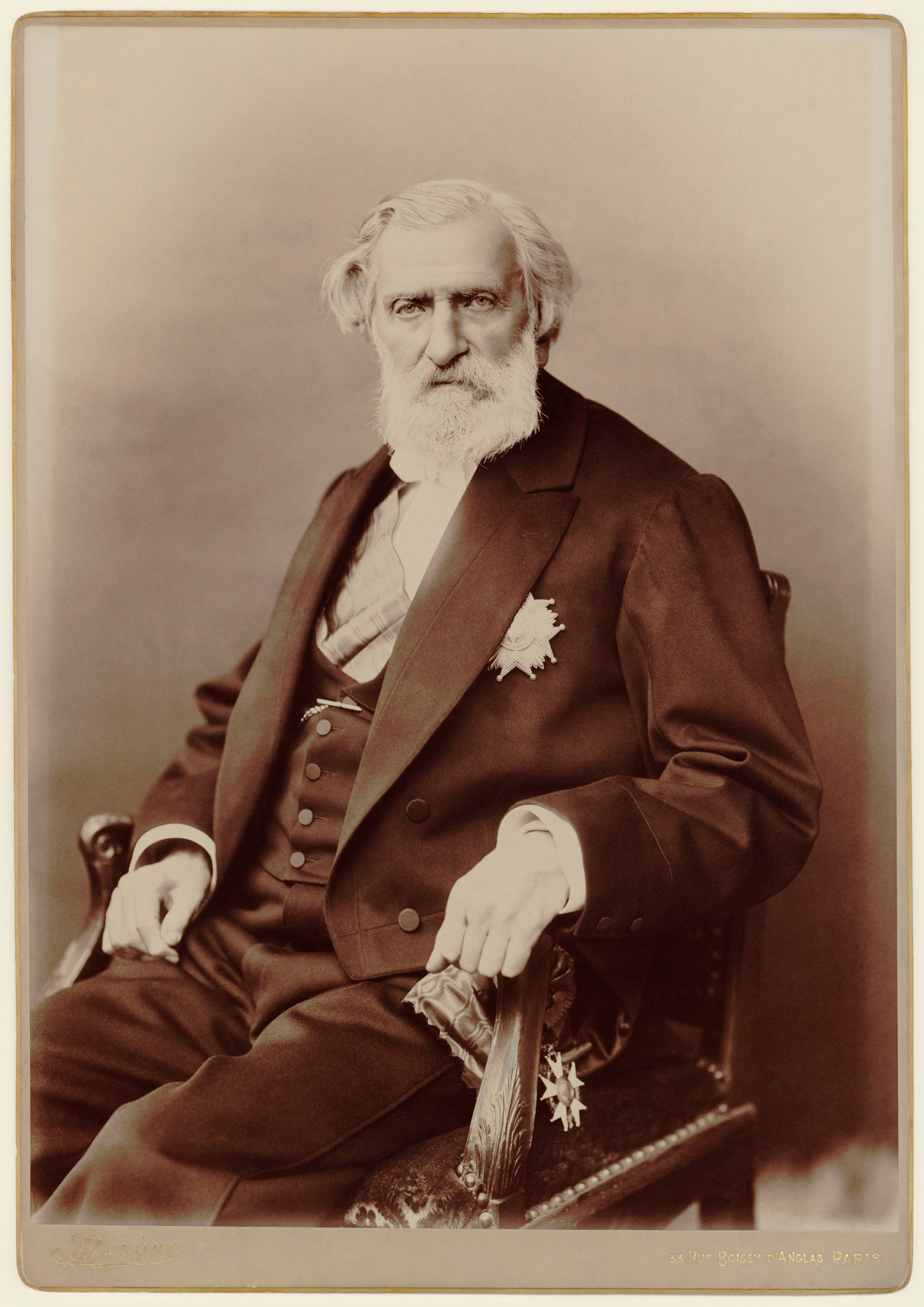 Photograph of Ambroise Thomas wearing his medals from the Légion d'honneur.